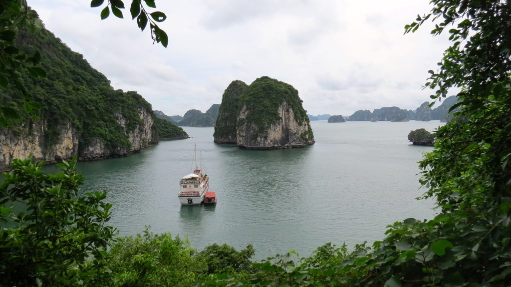 Bai Tu Long Bay